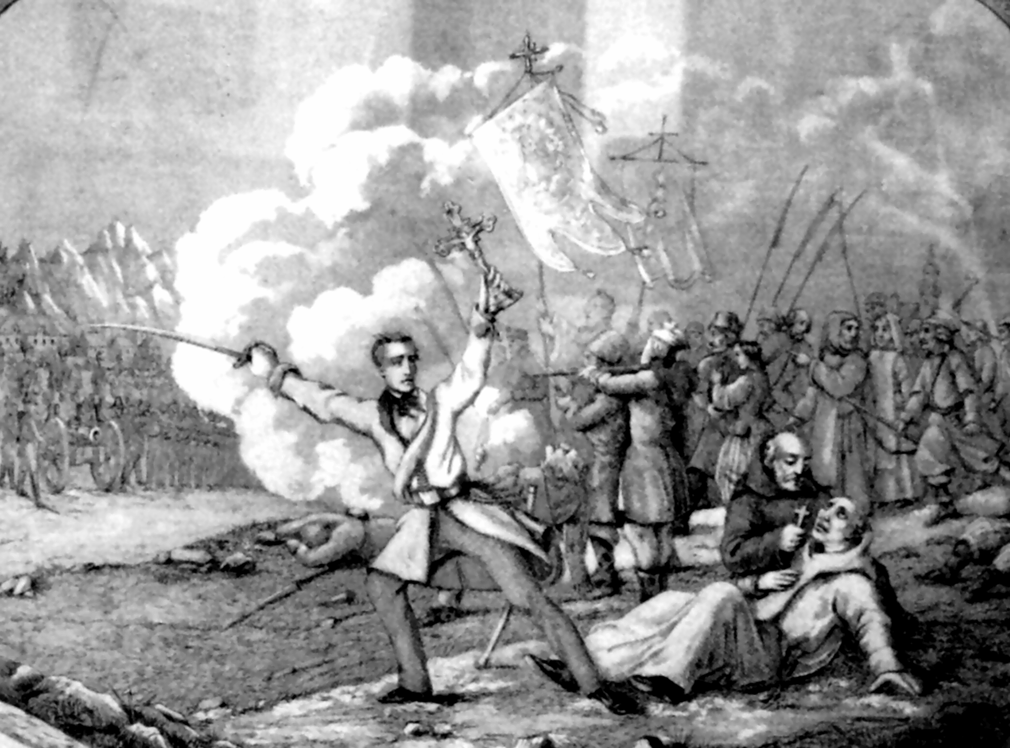 Edward Dembowski during Kraków Uprising 1846